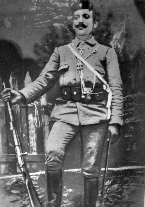 Konstantinos Papastavros